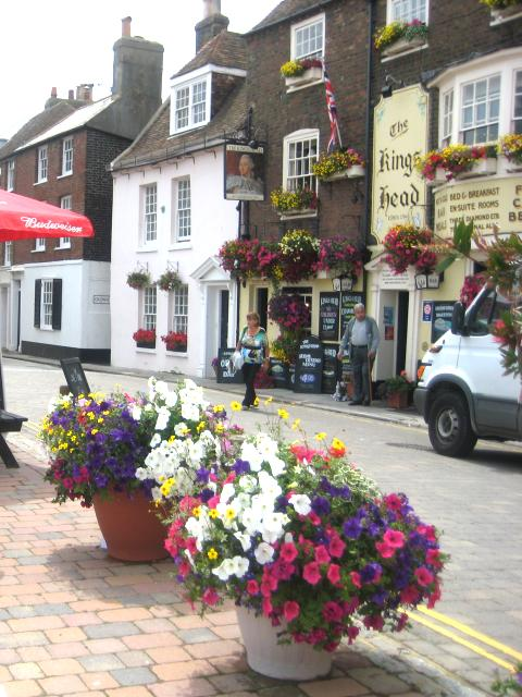 The Kings Head pub, Deal, Kent